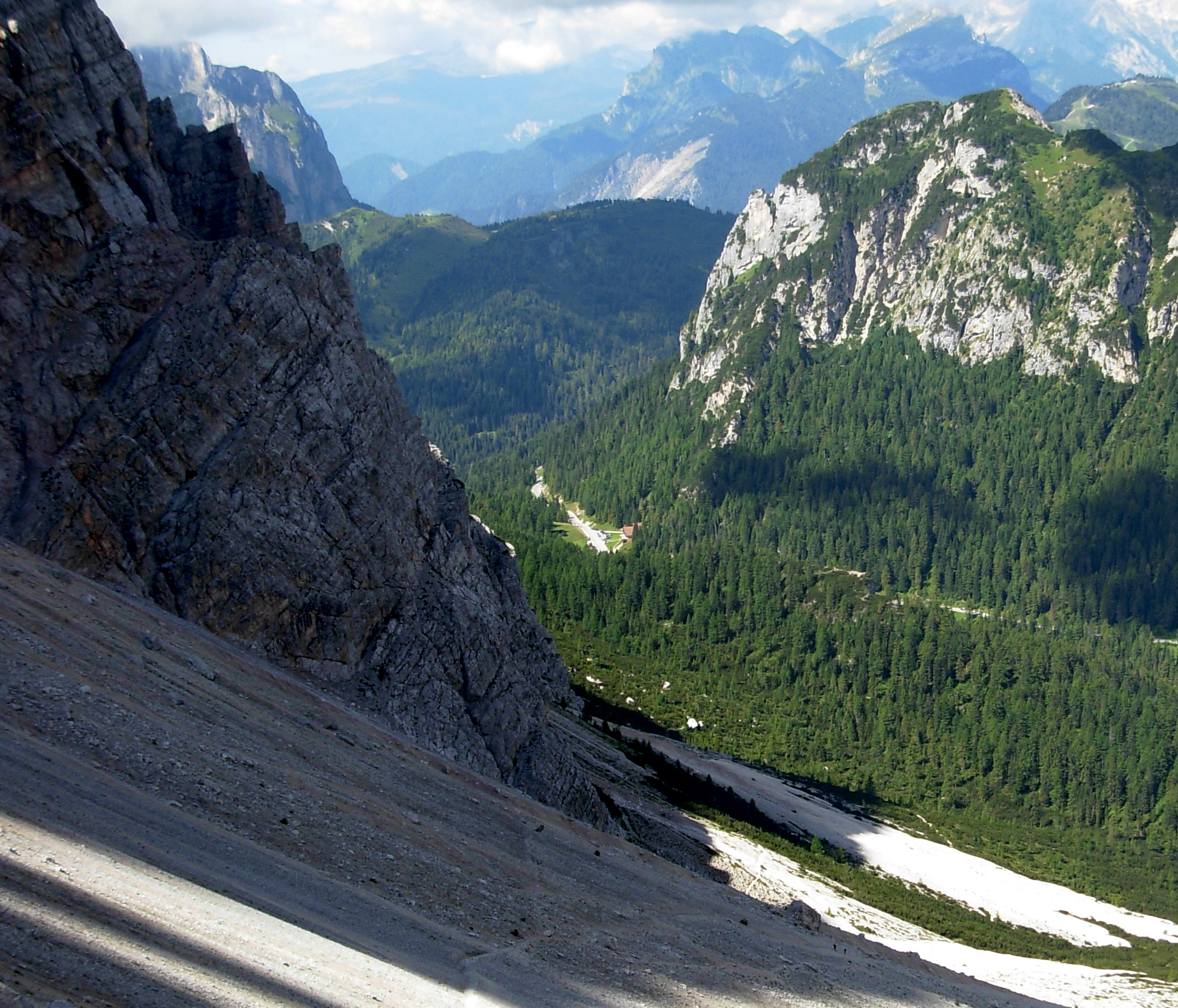 Forcella Staulanza (in the center)